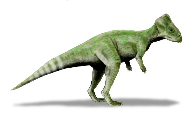 Graciliceratops mongoliensis, a ceratopsian from the Late Cretaceous of Mongolia, pencil drawing, digital coloring